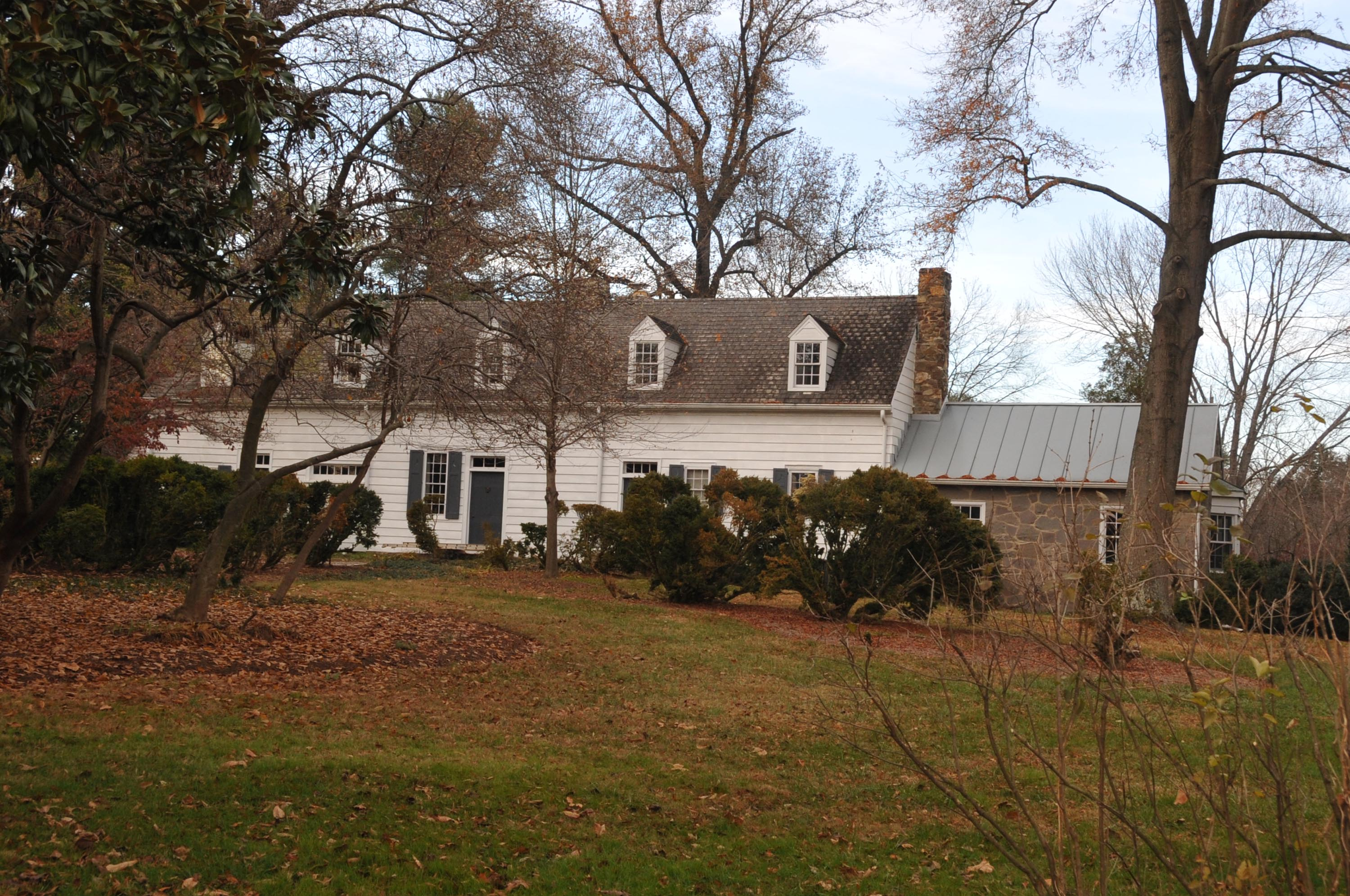 WILLIAM GUNNELL HOUSE IN GREAT FALLS; THE ORIGINAL STRUCTURE DATES TO 1750 AND WAS PART OF LORD FAIRFAX’S GREAT FALLS MANOR ESTATE; IT WAS SOLD TO WILLIAM GUNNELL IN 1791 AND REMAINED IN THE GUNNEL FAMILY UNTIL 1963. THIS HOUSE SHOULD NOT CONFUSED WITH A HOUSE OF THE SAME NAME IN FAIRFAX TOWN WHICH IS THE SCENE OF A FAMOUS JOHN MOSBY ESCAPADE. IT IS ALL THE SAME FAMILY AND IT COULD BE THE SAME WILLIAM GUNNEL OWNING BOTH HOUSES